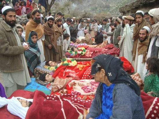 At least 10 Afghan civilians, including eight schoolchildren, have been killed in fighting involving Western troops in Narang district of Kunar Province in Afghanistan.